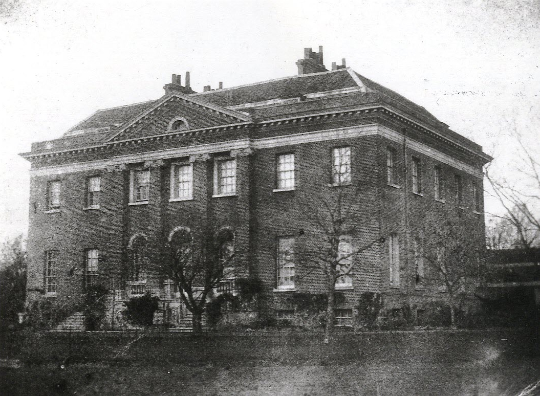 Calcot Park, Bath Road, Tilehurst, c. 1845. The main front, with steps leading up to a balcony. 1840-1849 : photograph by W. H. Fox Talbot. The original is in the Science Museum/Science and Soxciety Picture Library, negative number 548/69.